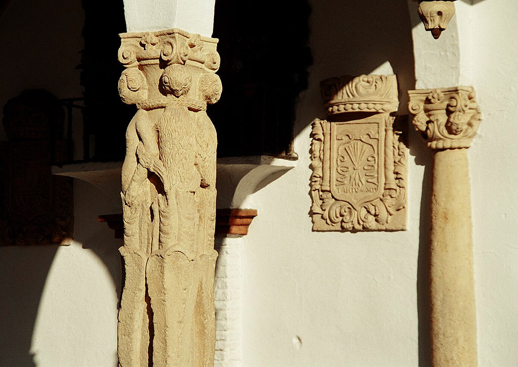 Ronda (Spain), Chapel Templete de la Virgen de los Dolores, 18th century.